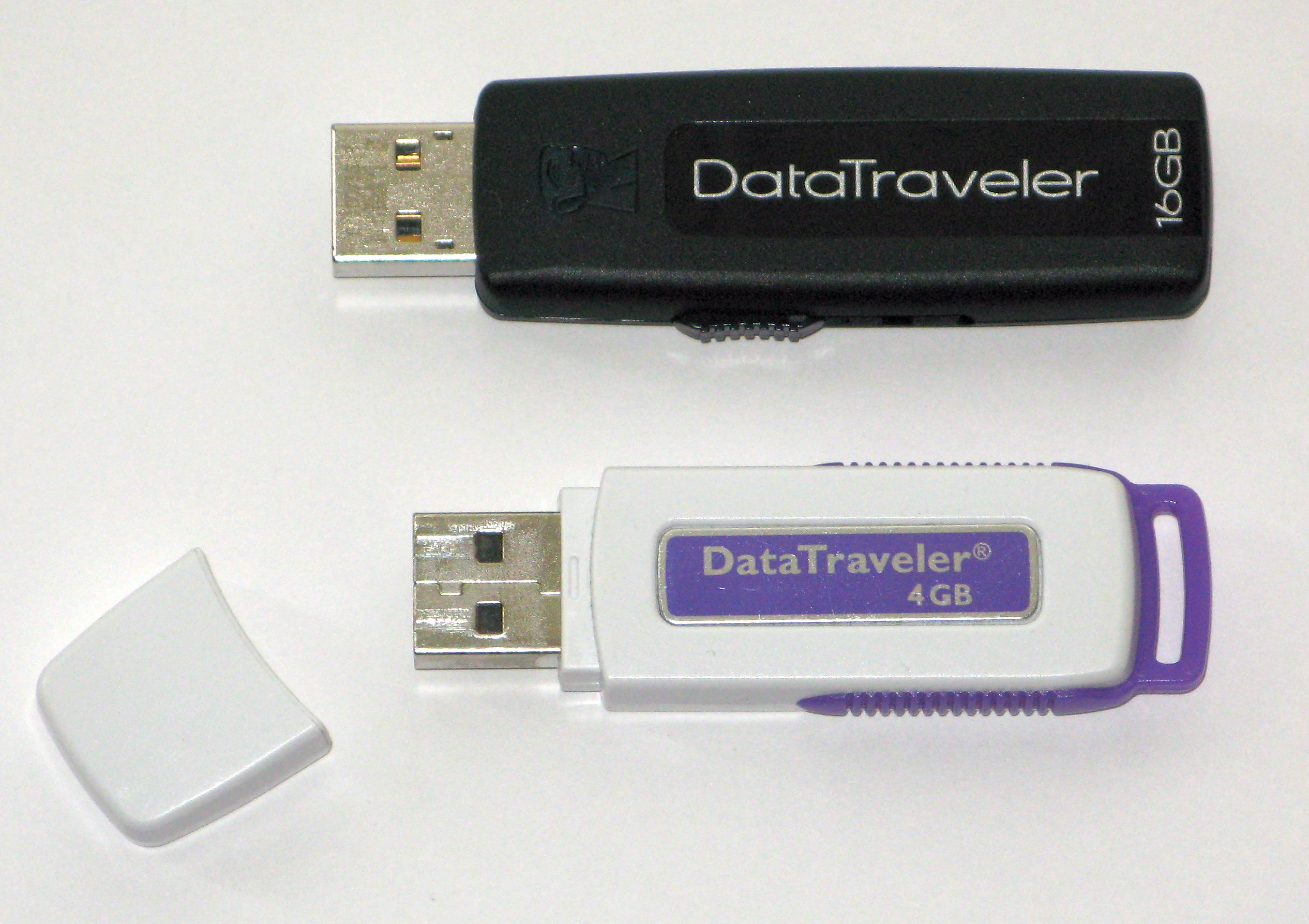 Kingston manufactured USB-memories. The upper is 16 GB with retractable connector, below the 4 GB with removable cap